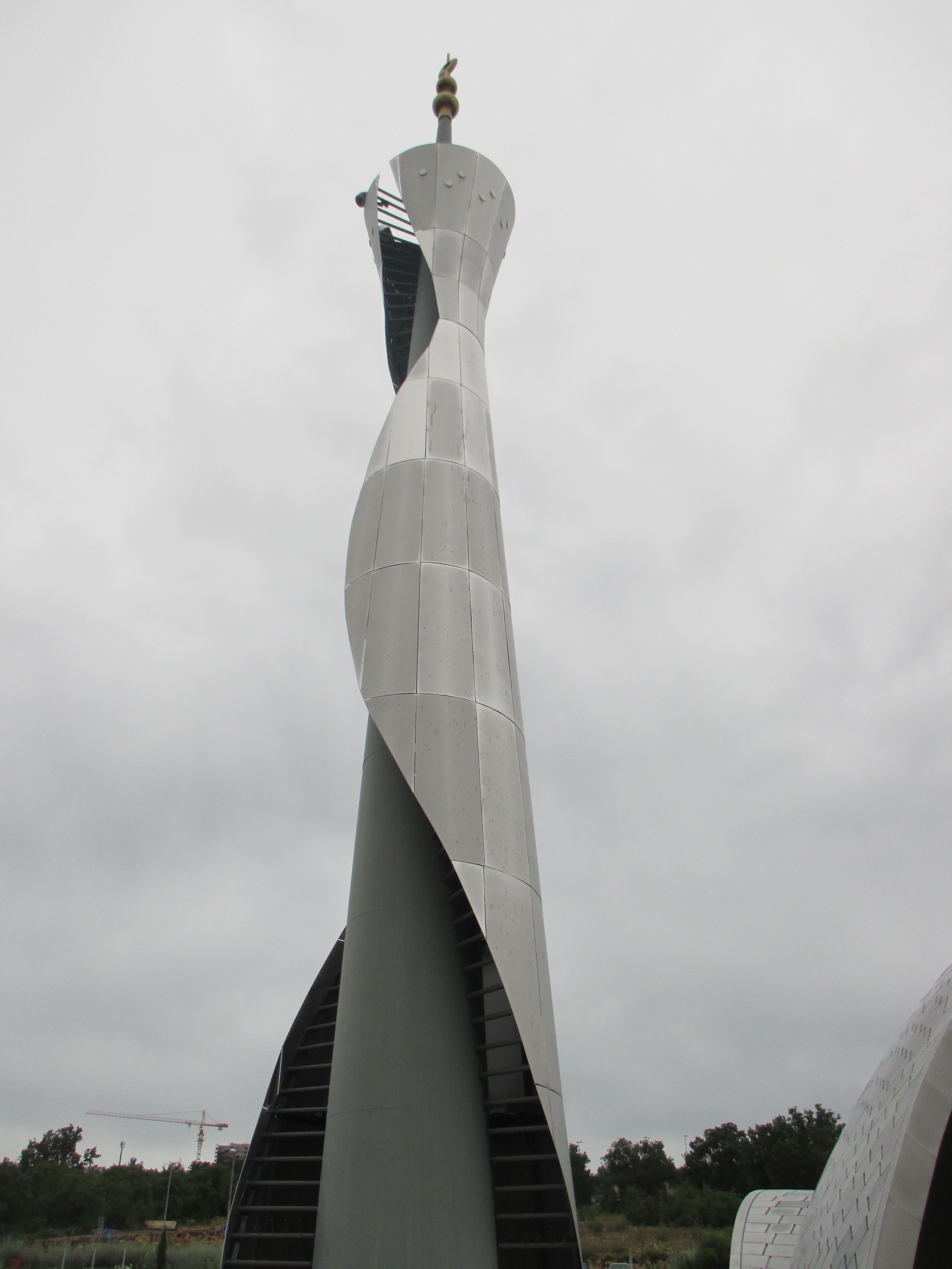 Rijeka Mosque - Minaret